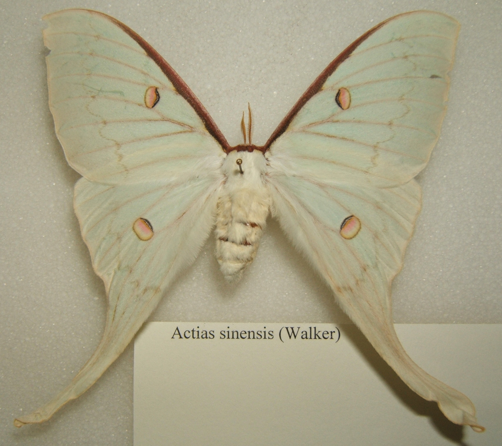 Actias sinensis adult female taken by Shawn Hanrahan at the Texas A&M University Insect Collection in College Station, Texas.